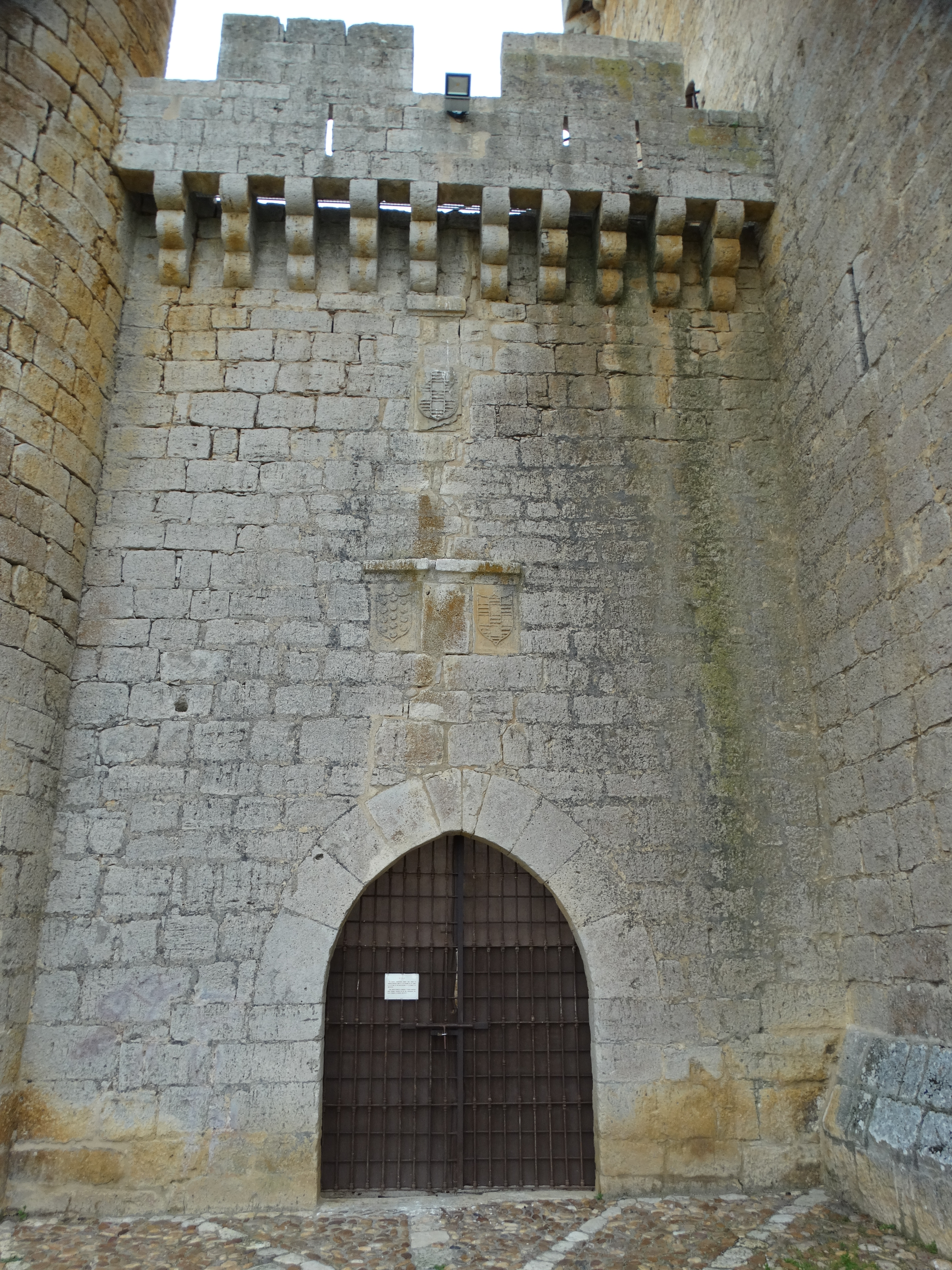 Castillo de Villalonso in the municipality of Villalonso, Zamora, Spain. It is a type of castle-palace rebuilt in the fifteenth century following the characteristics of the Valladolid school. Previously in century XIII there was another fortification that belonged to the order of Alcántara. Access door with the shields of Ulloa and Sarmiento.